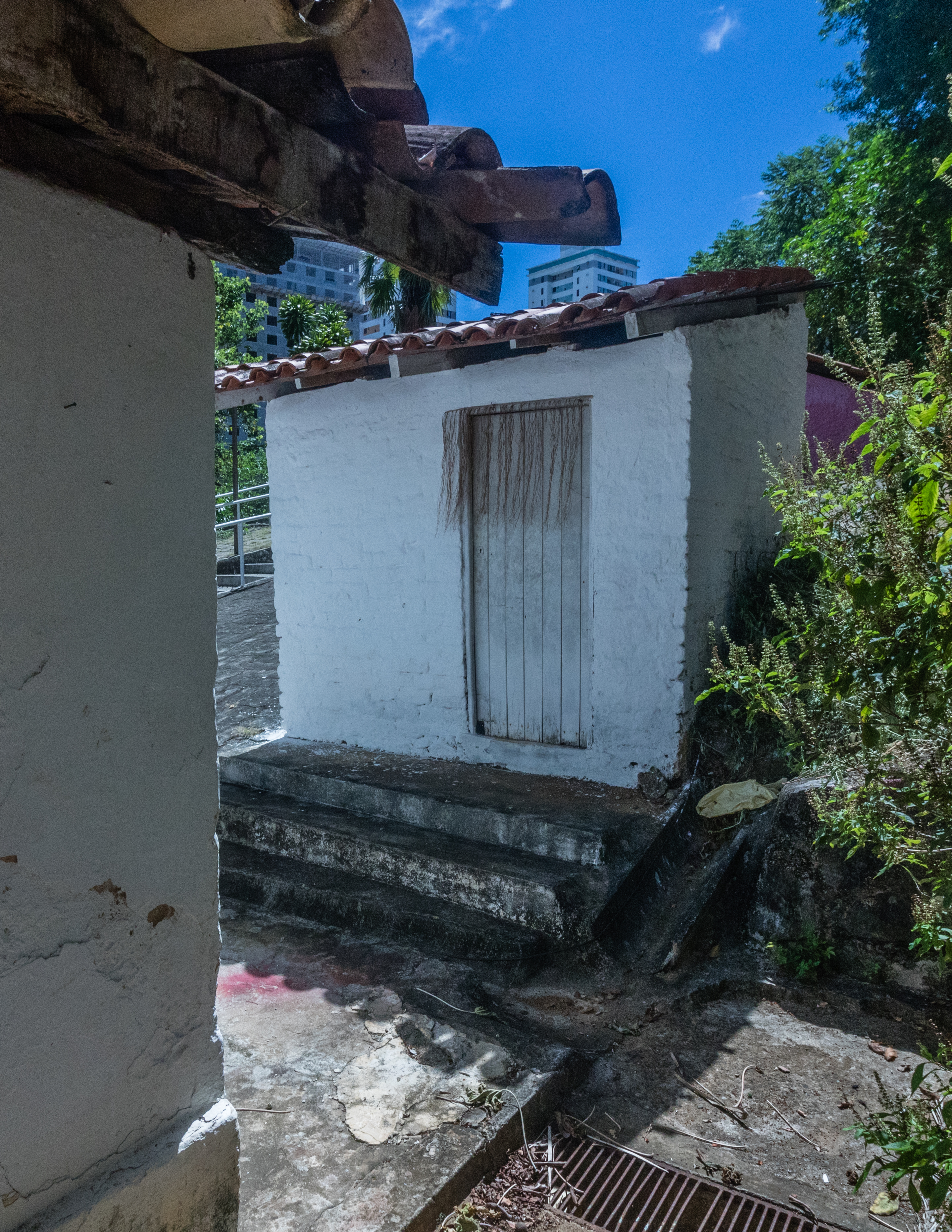 Casa dos Ancestrais. Ilê Axé Iyá Nassô Oká (Casa Branca do Engenho Velho), Salvador, Bahia, Brazil.